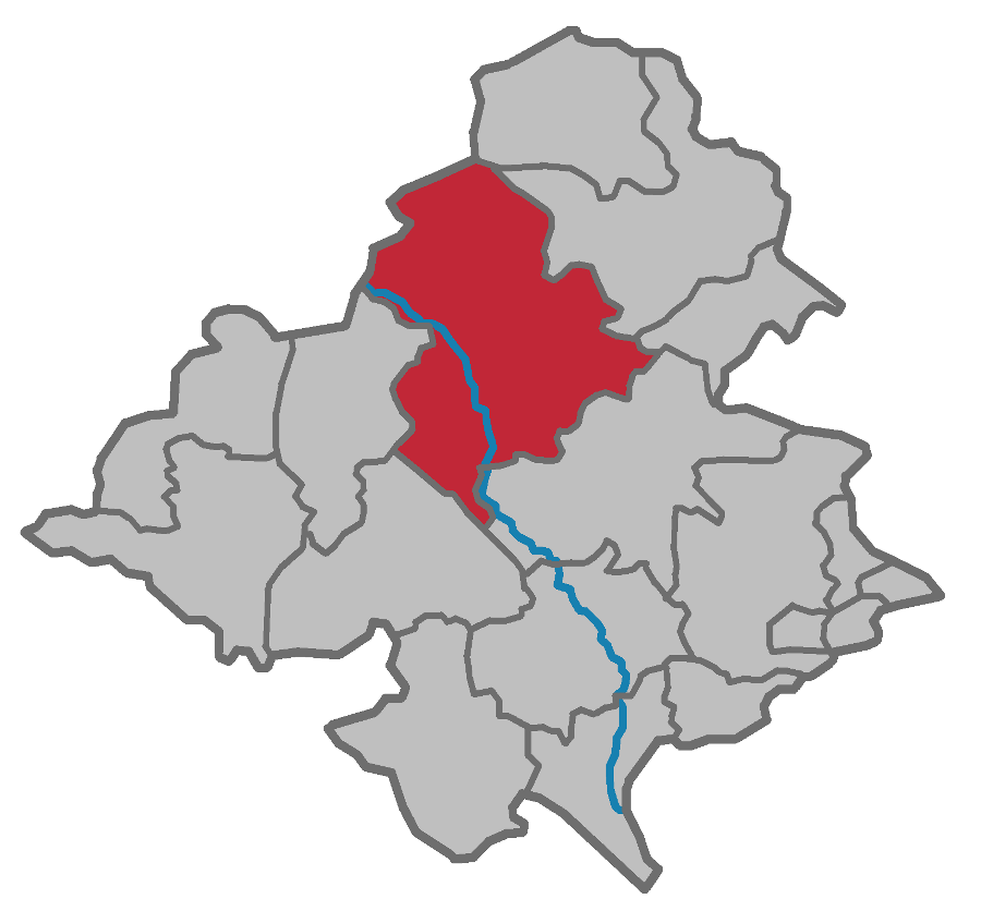 Locator map of Oppeln district in Upper Silesia